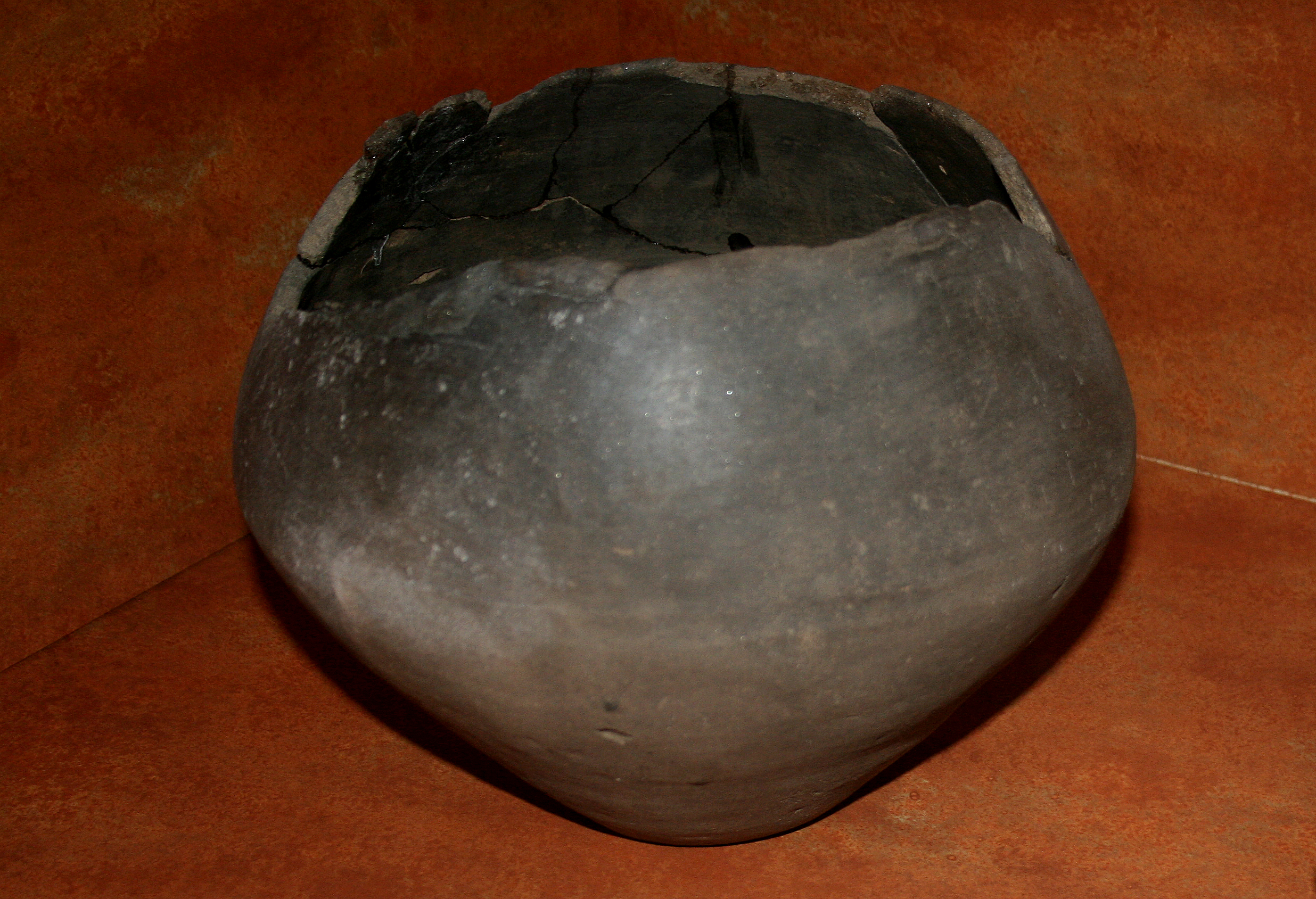 Funeral urn Stage : Final Bronze Age (to - 1200 years from - 700 years Before the Current Era) Place of discovery : Olivet, Loiret, France